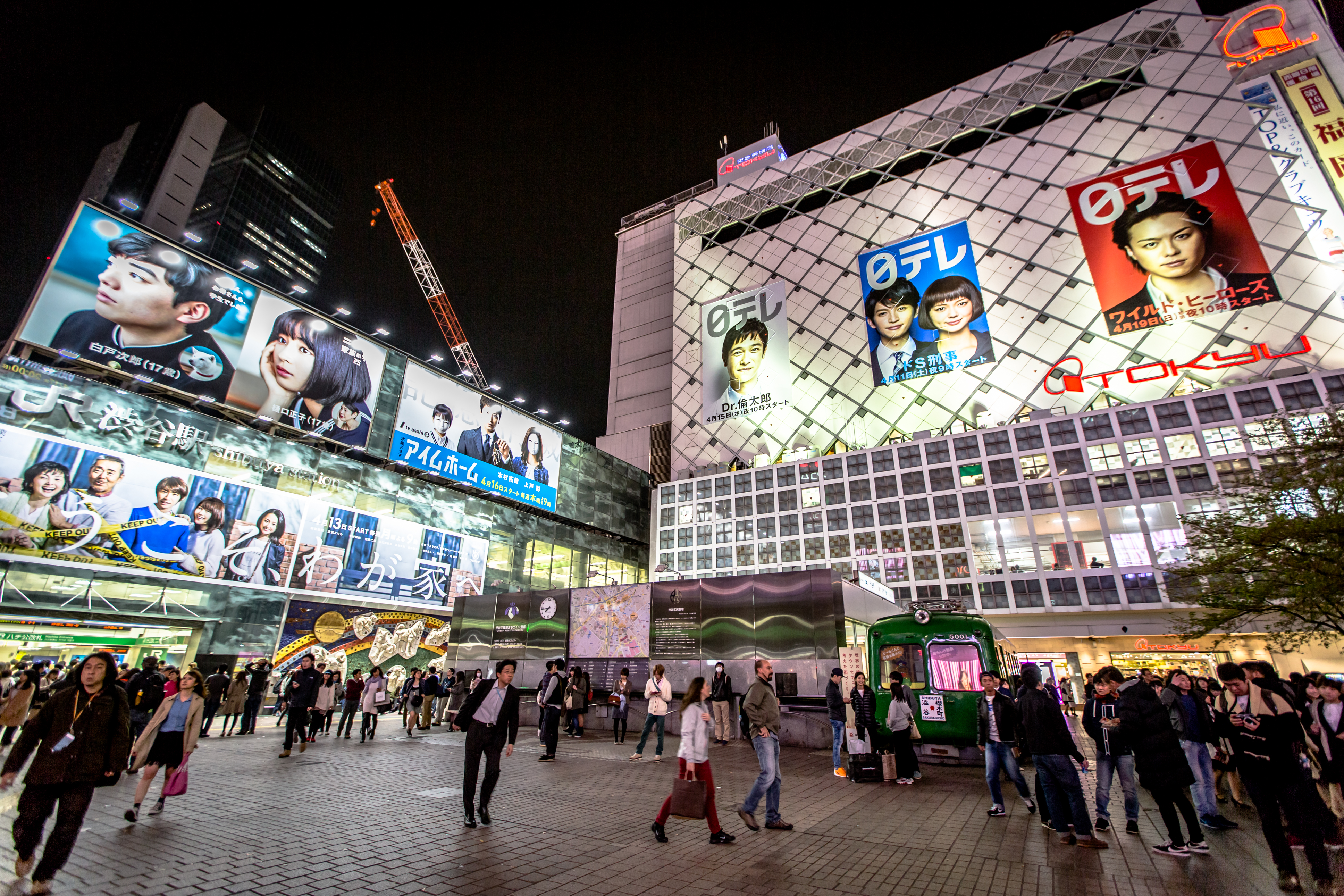 Shibuya District at Night